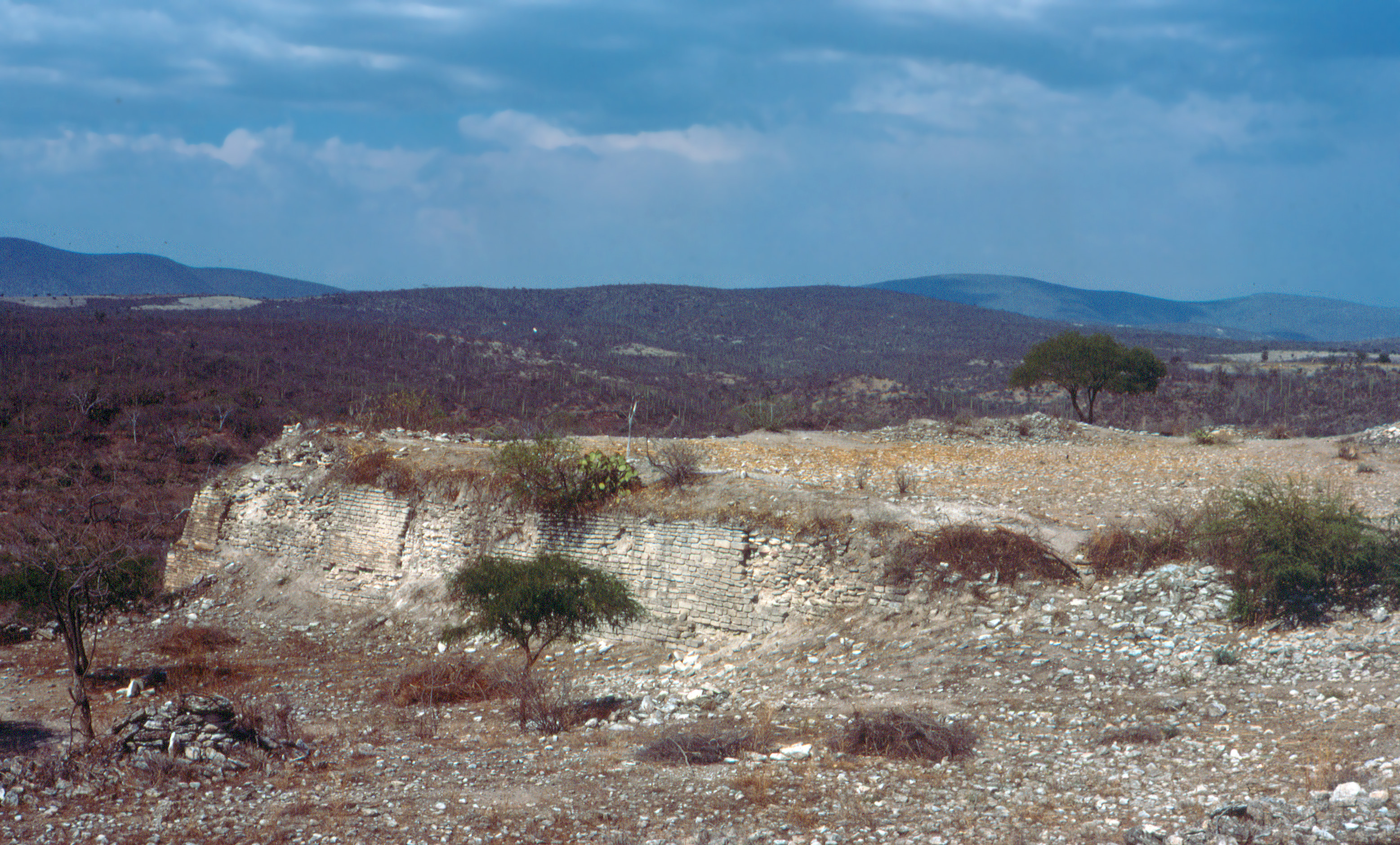 Tepeji el viejo, Puebla, Mexico: Defensive walls